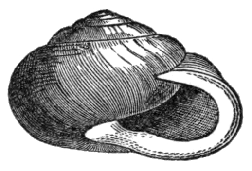 drawing of the shell of Neohelix albolabris (in the source book mentined as Polygyra albolabris)